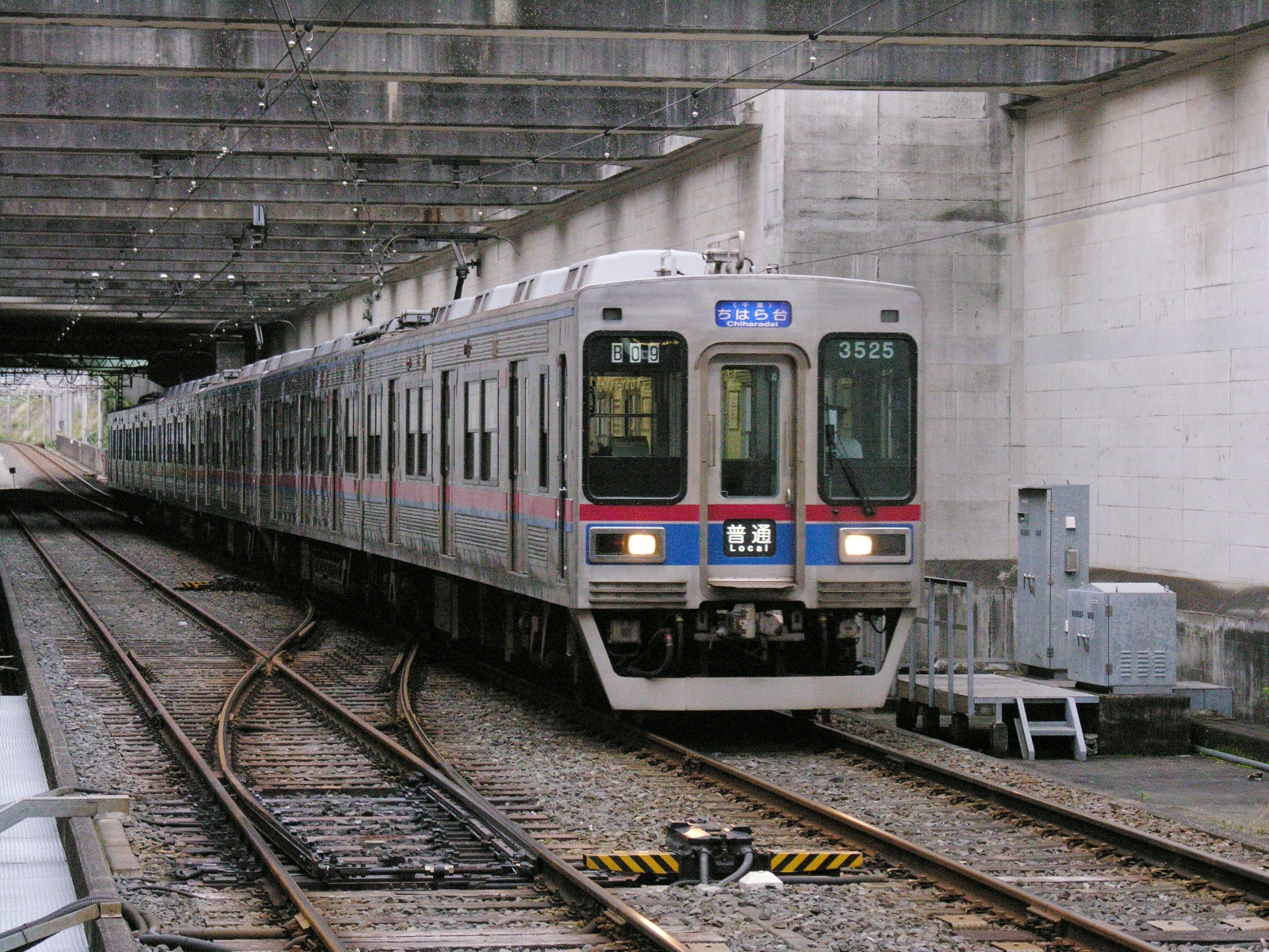 Keisei Electric Railway 3500 series refurbished six-car EMU set 3525 arriving at Omoridai Station